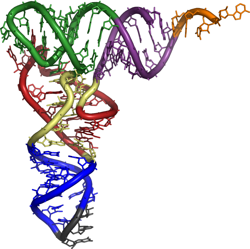 Three dimensional image of a tRNA. Coloring: CCA tail in orange Acceptor stem in purple D arm in red Anticodon arm in blue with Anticodon in black. T arm in green.